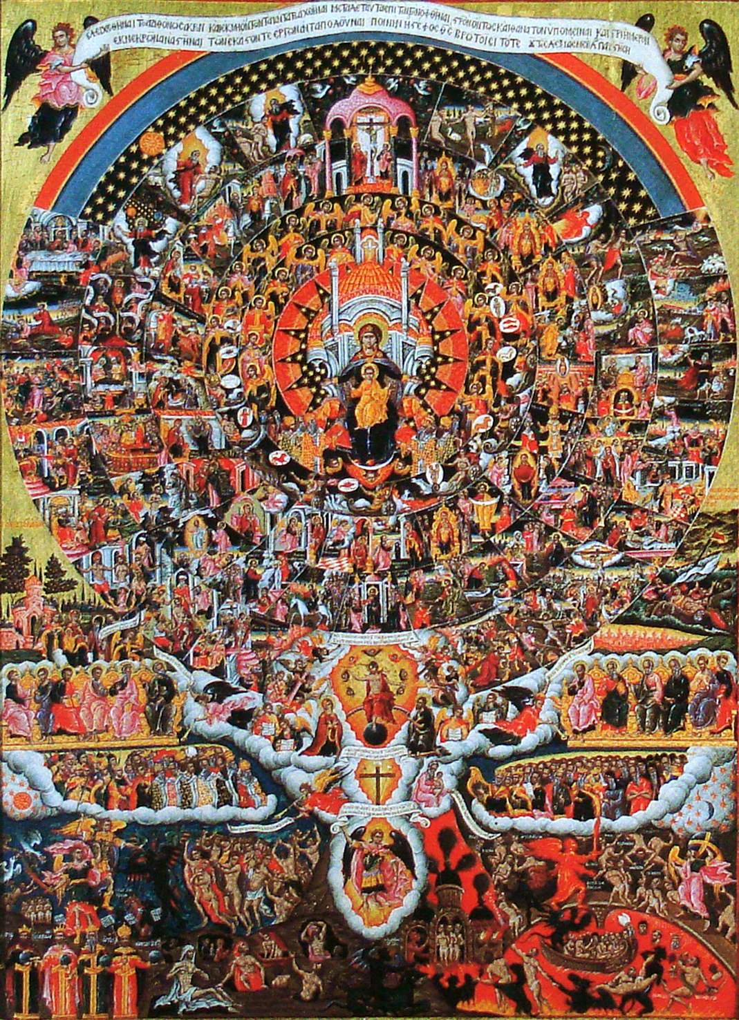 Icon illustrating the hymn In The rejoiceth